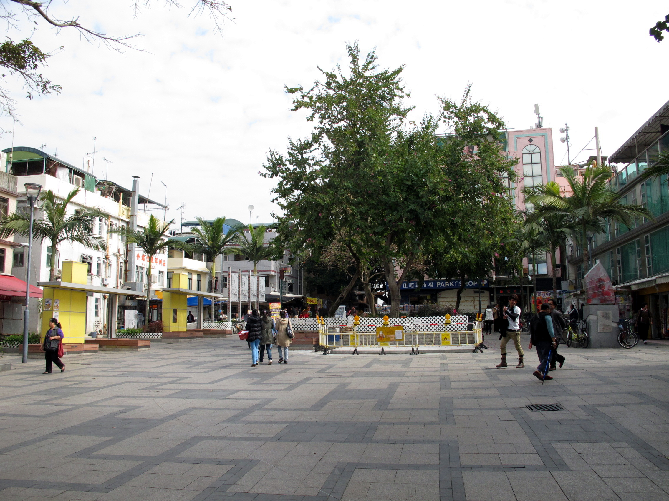 Tung Wan Road Open space